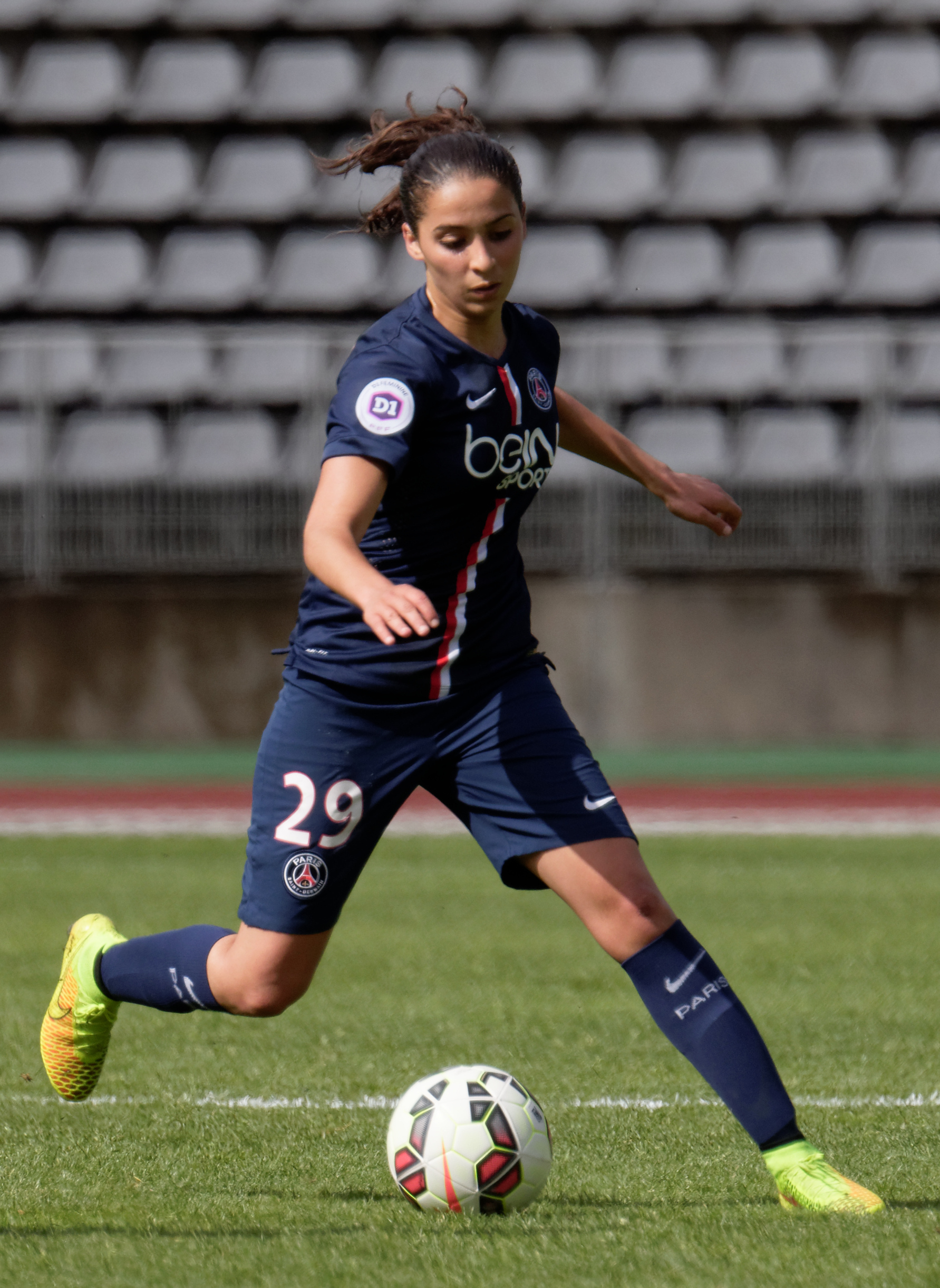 PSG vs Rodez, 3rd May 2015.